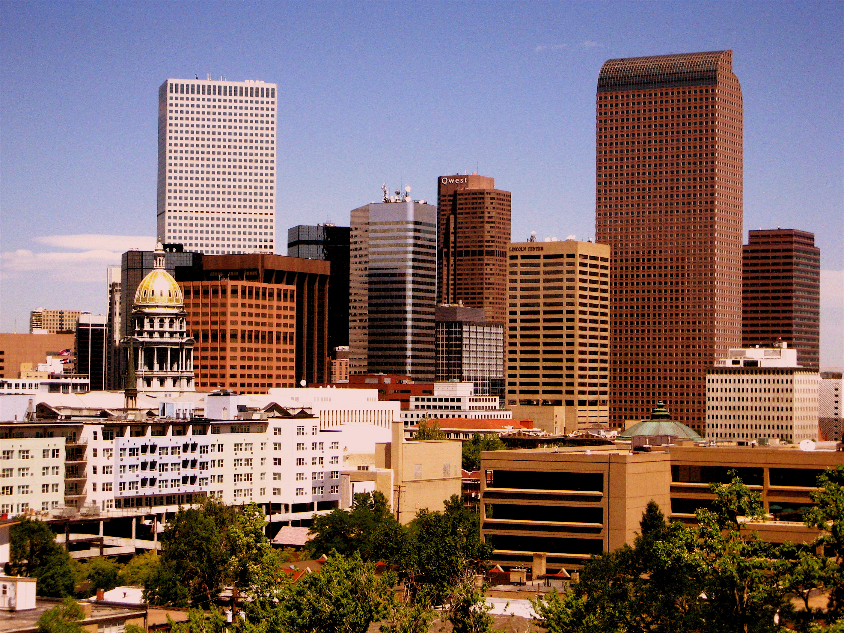 View from a tenth floor high rise at E. 12th ave., near Pennsylvania st.